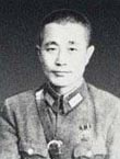 Du Yuming (1903–1981), Kuomintang field commander